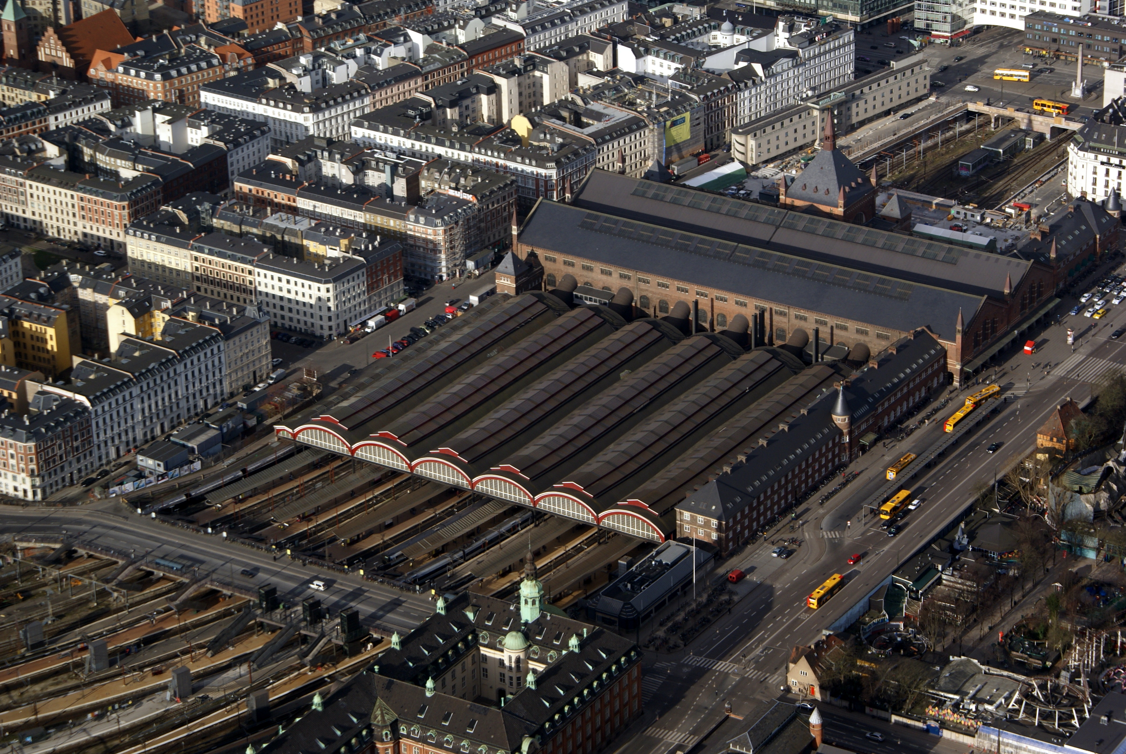 Copenhagen central station.